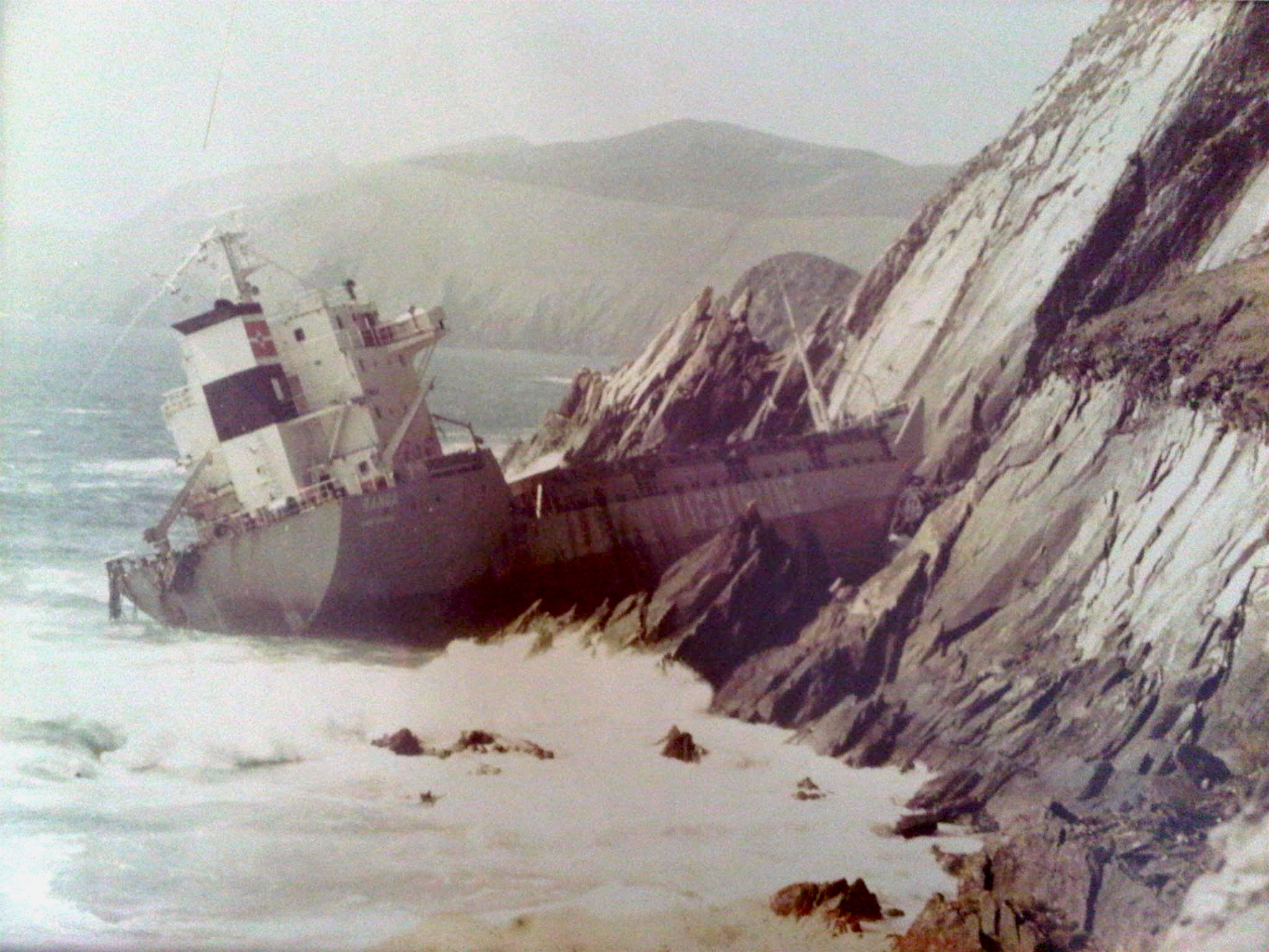 view of mv ranga next day